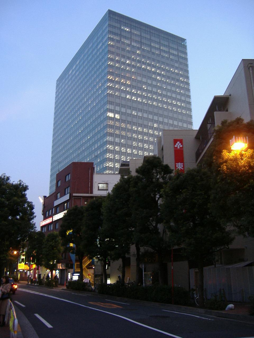 ThinkParkThinkPark (Tokyo, Japan) - the headquarters of MOS Burger